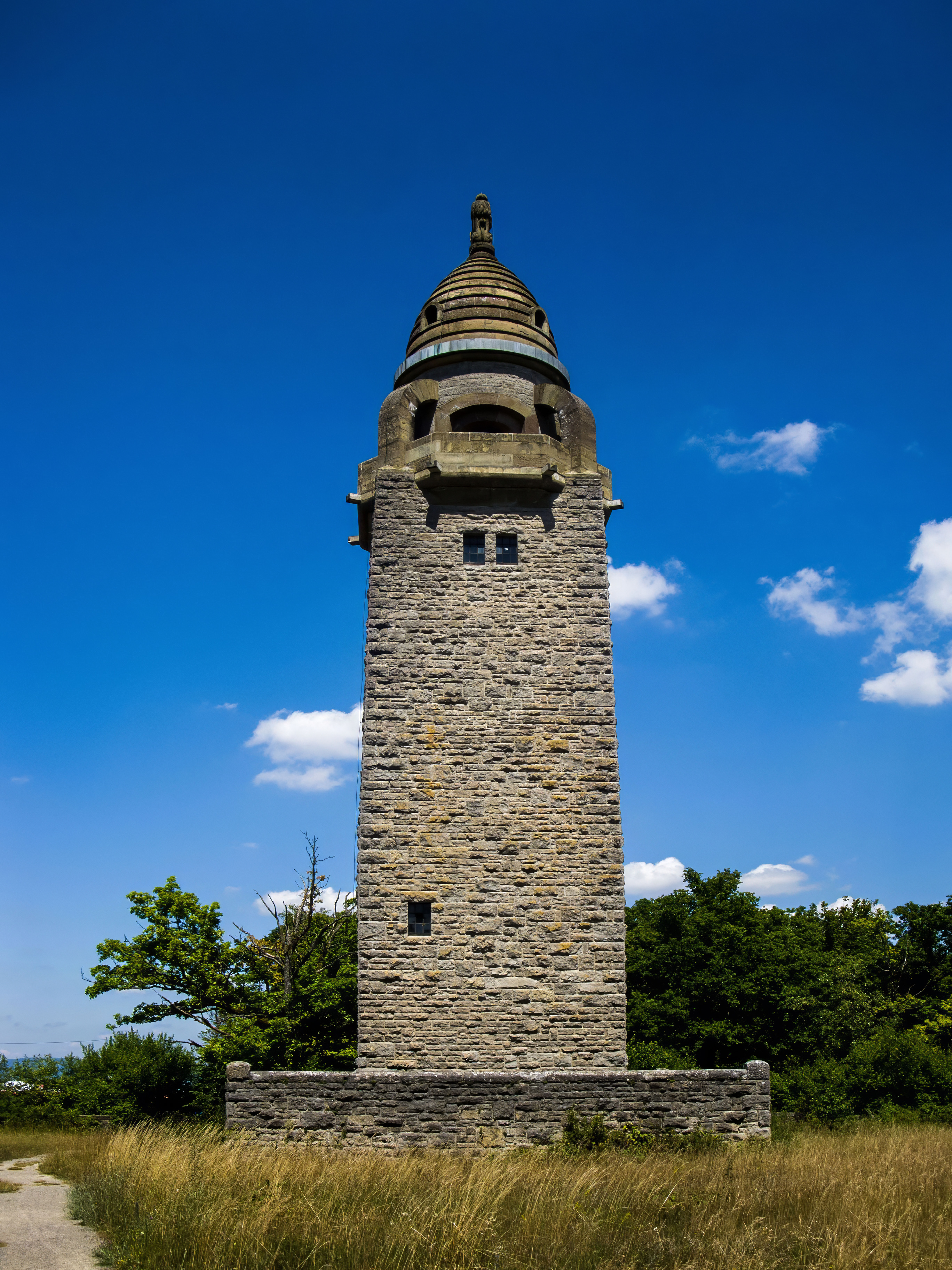 Wittelsbacher Tower near Bad KissingenThis is a photograph of an architectural monument.